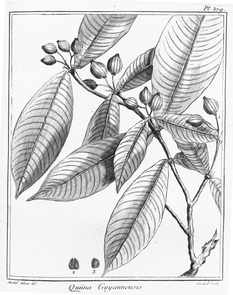 Illustration of Quiina guianensis (Orig. Quiina guyannensis)